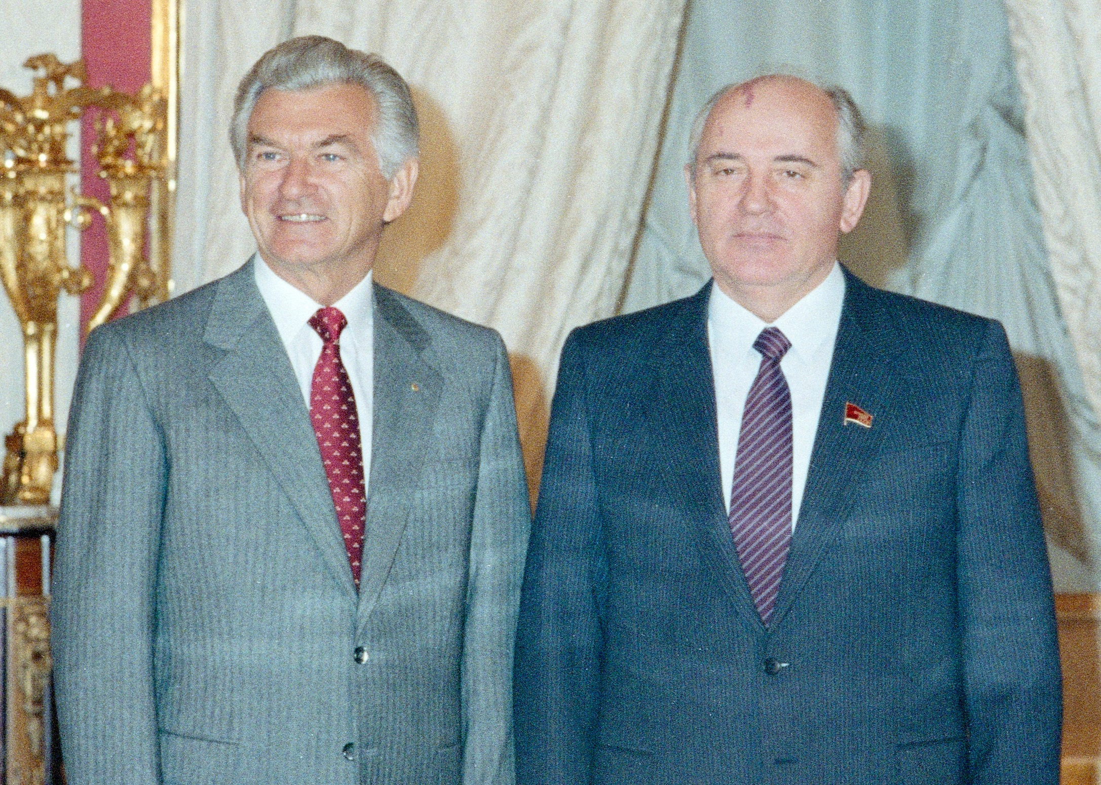 Meeting between General Secretary Gorbachev and Prime Minister Hawke during the 1987 Prime Ministerial visit to the Soviet Union.